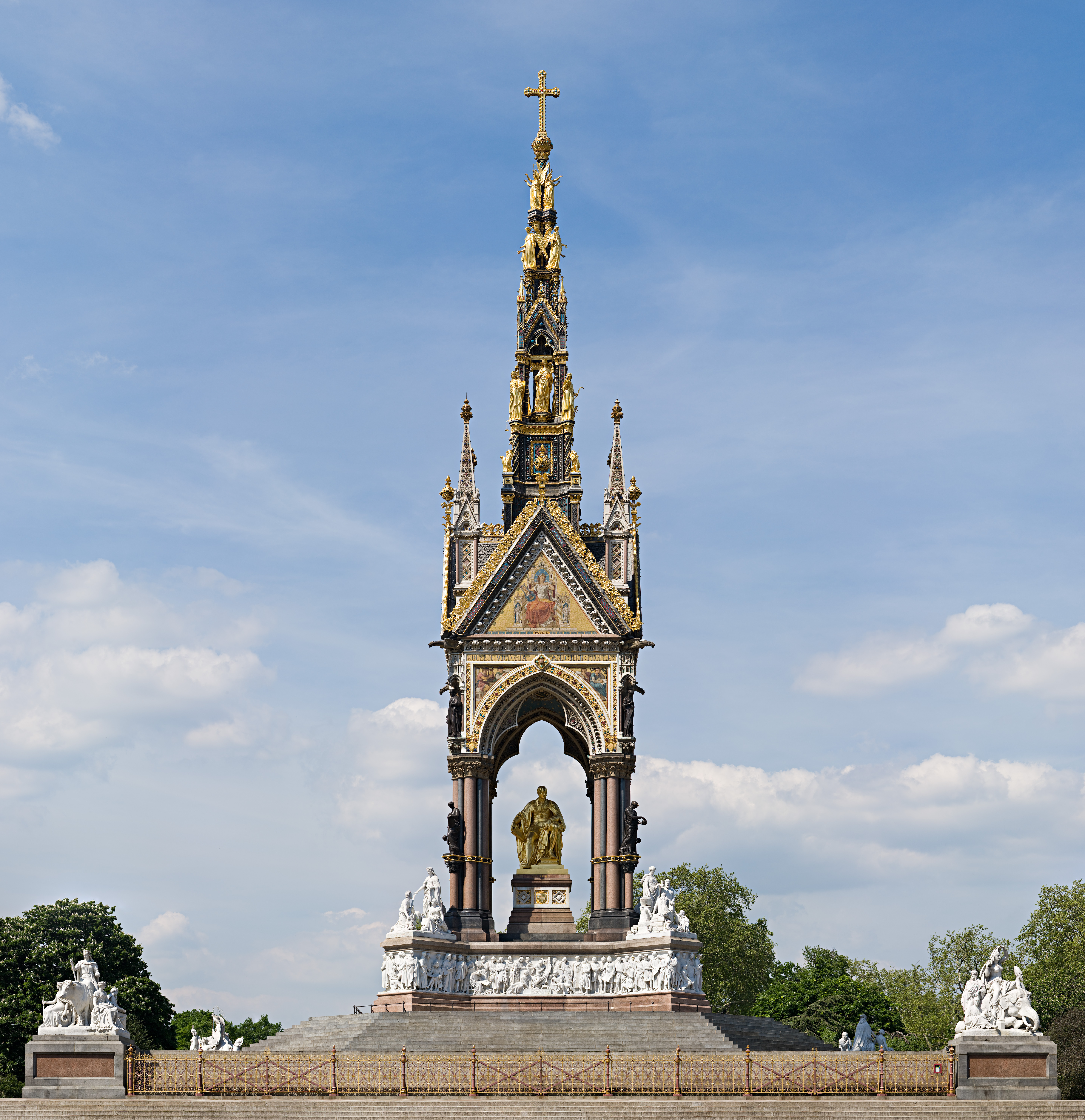 The Albert Memorial in Kensington Gardens, London. Taken by myself with a Canon 5D and 70-200mm f/2.8L lens. This is a mosaic image comprised of 5 horizontal by 6 vertical images.